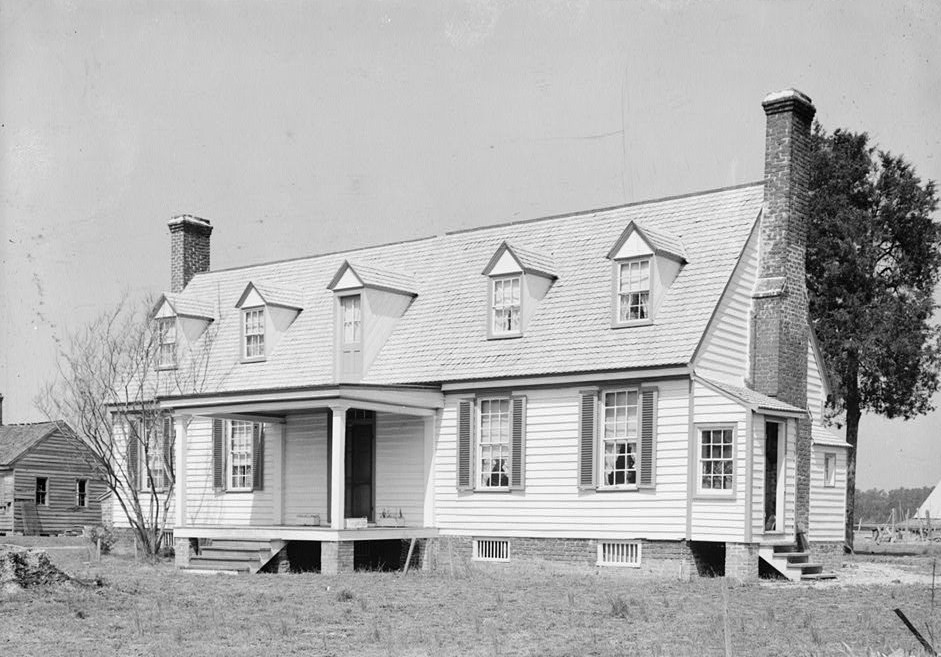 Greenway, State Route 5 vicinity, Charles City vicinity (Charles City County, Virginia) cropped This file comes from the Historic American Buildings Survey (HABS), Historic American Engineering Record (HAER) or Historic American Landscapes Survey (HALS). These are programs of the National Park Service established for the purpose of documenting historic places. Records consist of measured drawings, archival photographs, and written reports. When reusing please credit: Library of Congress, Prints & Photographs Division, VA,19-CHARC.V,1-4 This tag does not indicate the copyright status of the attached work. A normal copyright tag is still required. See Commons:Licensing for more information. English | +/− This work is in the public domain in the United States because it is a work prepared by an officer or employee of the United States Government as part of that person’s official duties under the terms of Title 17, Chapter 1, Section 105 of the US Code. See Copyright. Note: This only applies to original works of the Federal Government and not to the work of any individual U.S. state, territory, commonwealth, county, municipality, or any other subdivision. This template also does not apply to postage stamp designs published by the United States Postal Service since 1978. (See § 313.6(C)(1) of Compendium of U.S. Copyright Office Practices). It also does not apply to certain US coins; see The US Mint Terms of Use. This file has been identified as being free of known restrictions under copyright law, including all related and neighboring rights. Object location37° 20′ 19″ N, 77° 05′ 20″ W